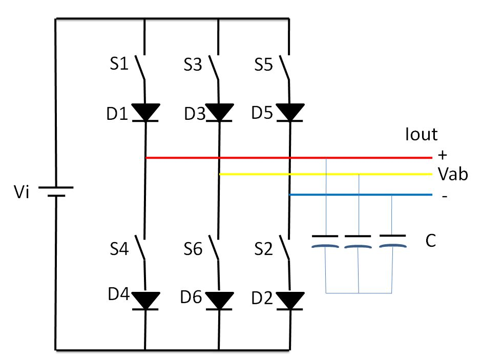 Three Phase Current Source Inverter